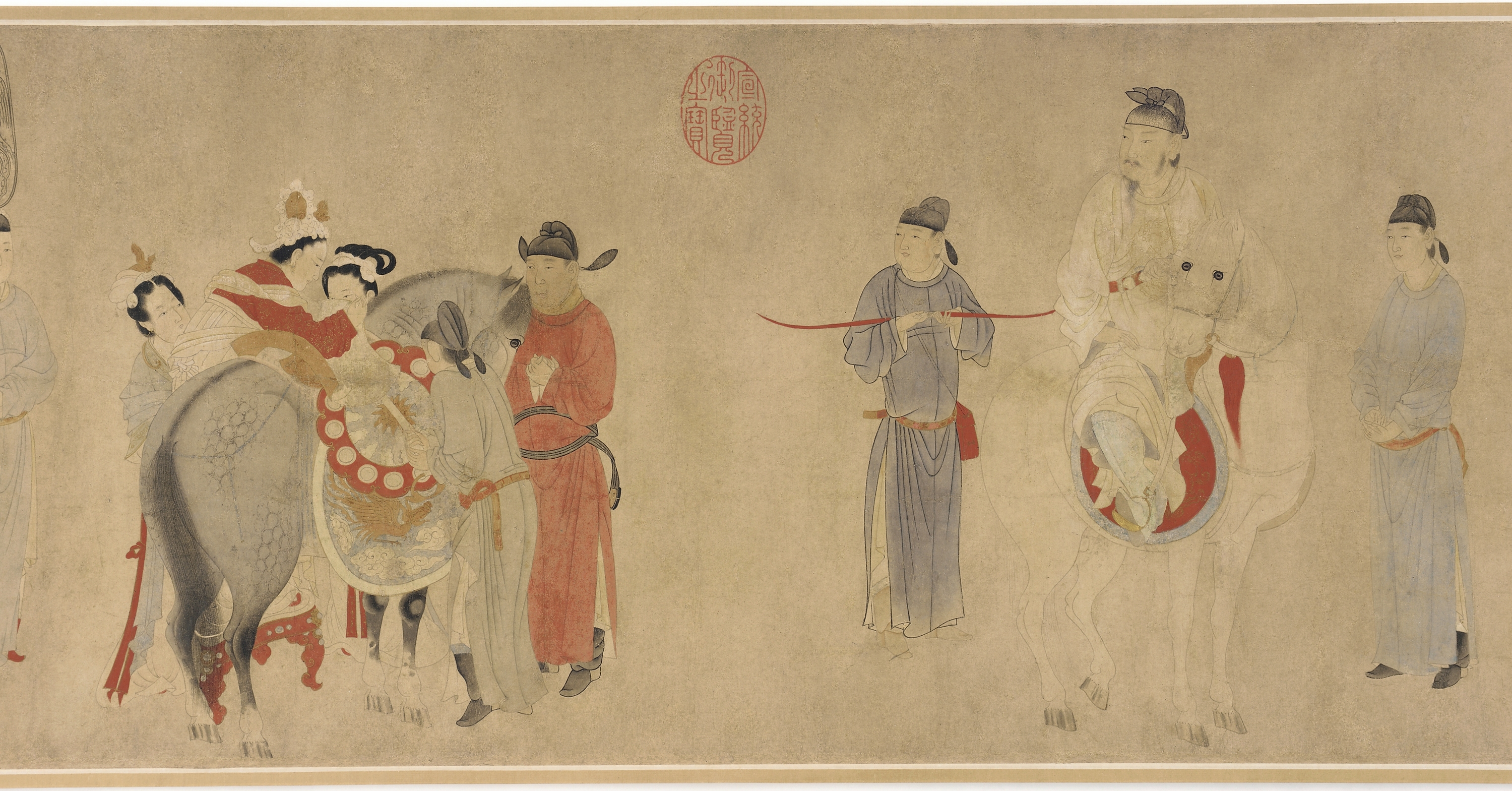 Qian Xuan Consort Yang Mounting a Horse (29.5 x 117.0 cm), section. Freer Gallery of Art Washington